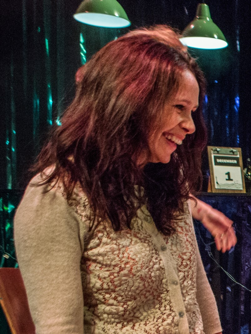 Lykke Sand Michelsen in the Copenhagen theater Folketeatret's production of the play "Varmestuen" by Anna Bro.